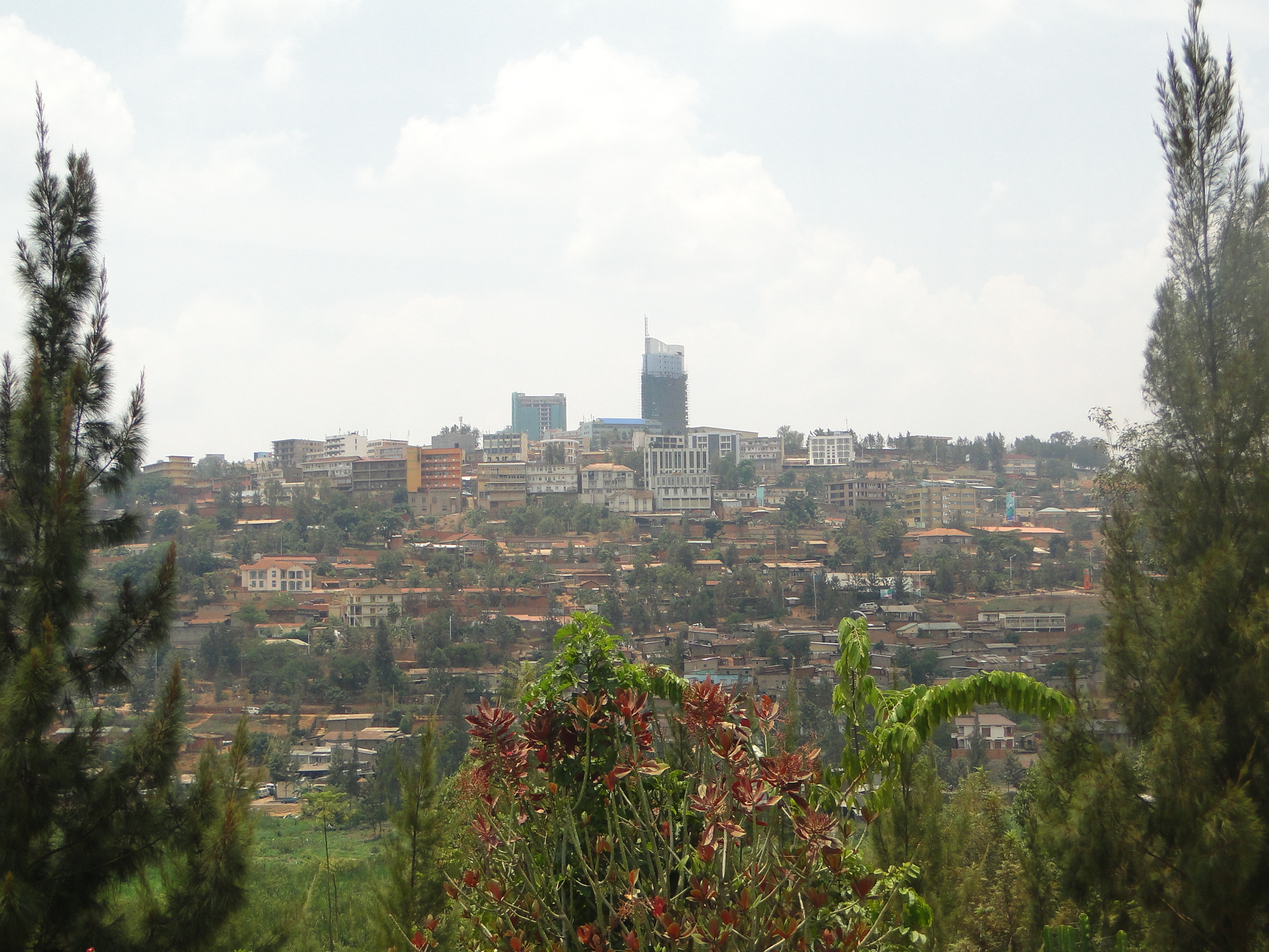 Downtown Kigali as viewed from the Genocide Memorial Museum